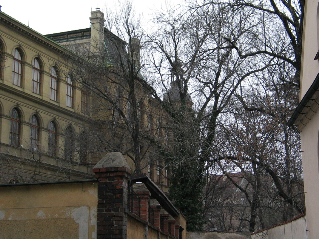 VIewing the Jewish Cemetery and surrounding buildings in Jusefov